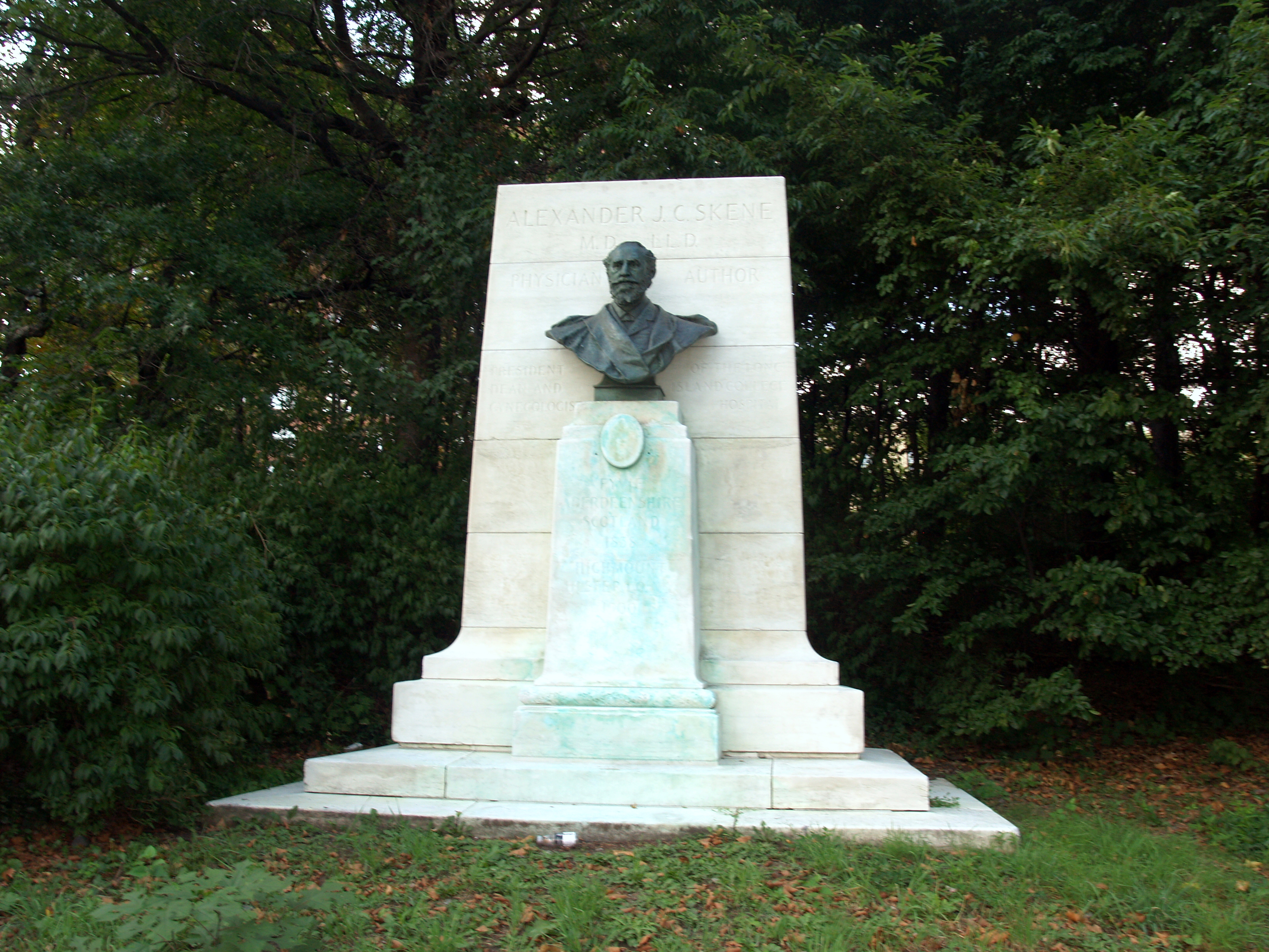 Memorial to Alexander Skene by John Massey Rhind (1905) in Grand Army Plaza, Brooklyn, New York.